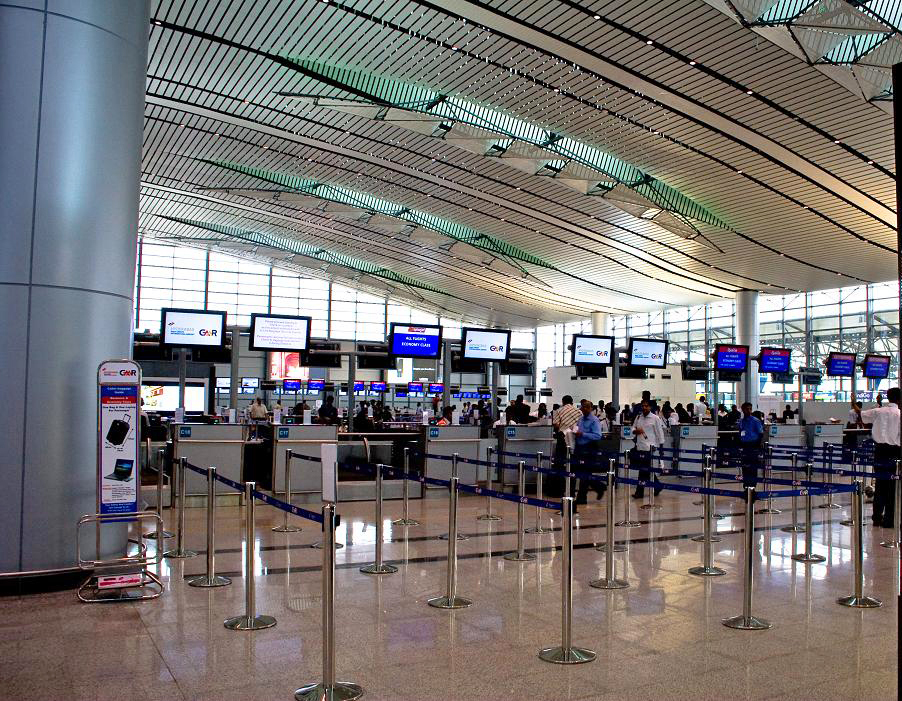 Hyderabad Airport